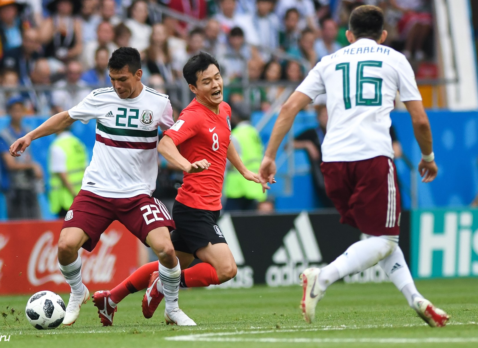 Hirving Lozano